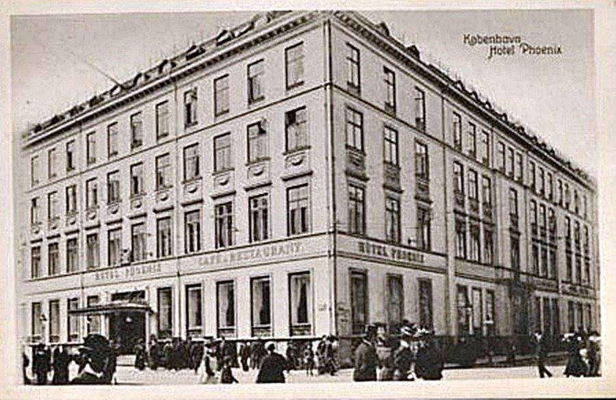 Hotel Phoenix at Bredgade 37 in Copenhagen, Denmark